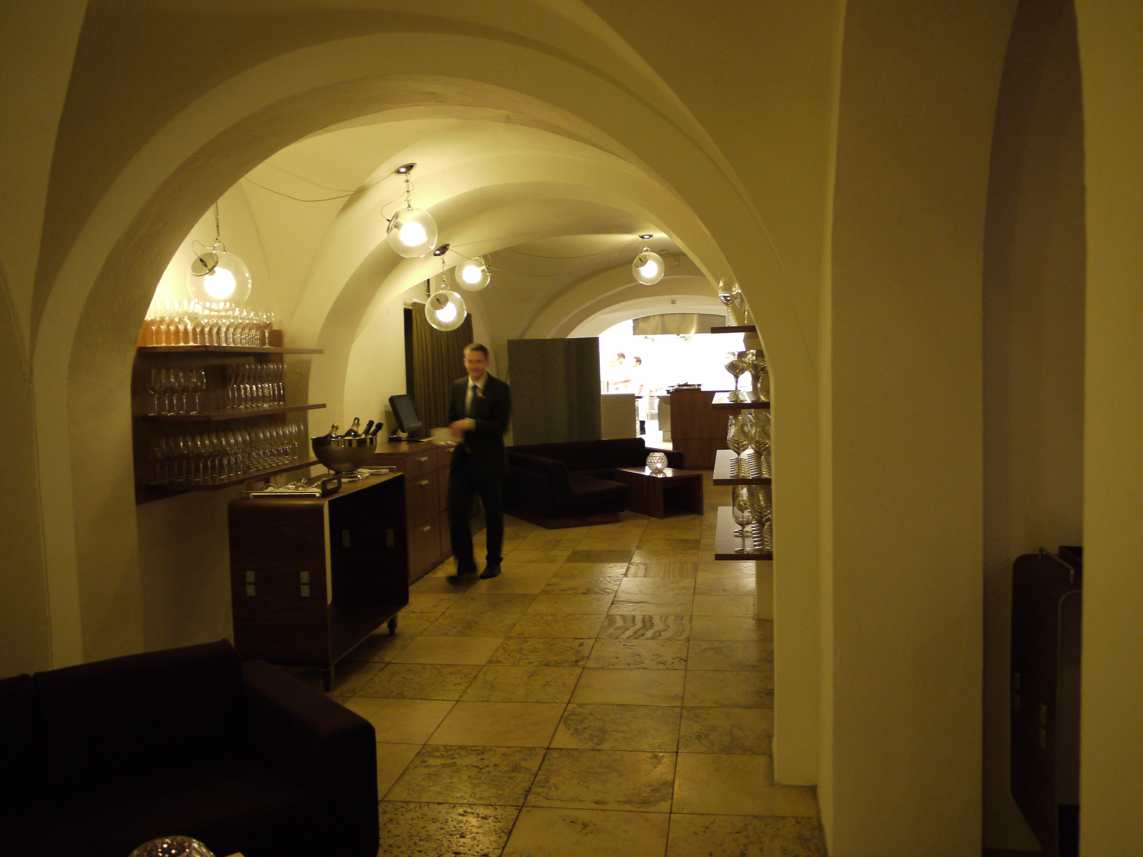 Restaurant AOC in the celler of Moltke's mansion in Copenhagen, Denmark